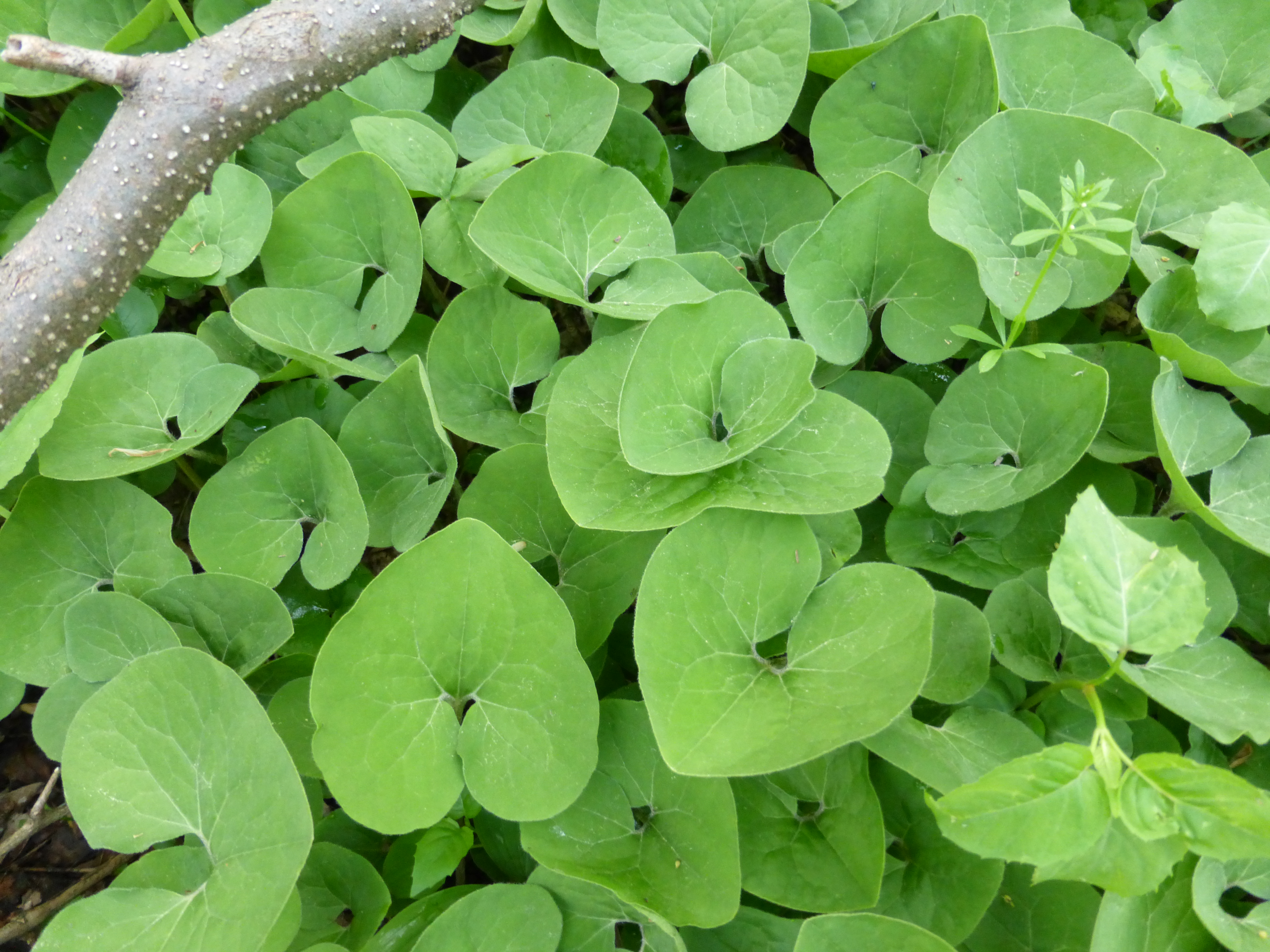 Asarum canadense foliage